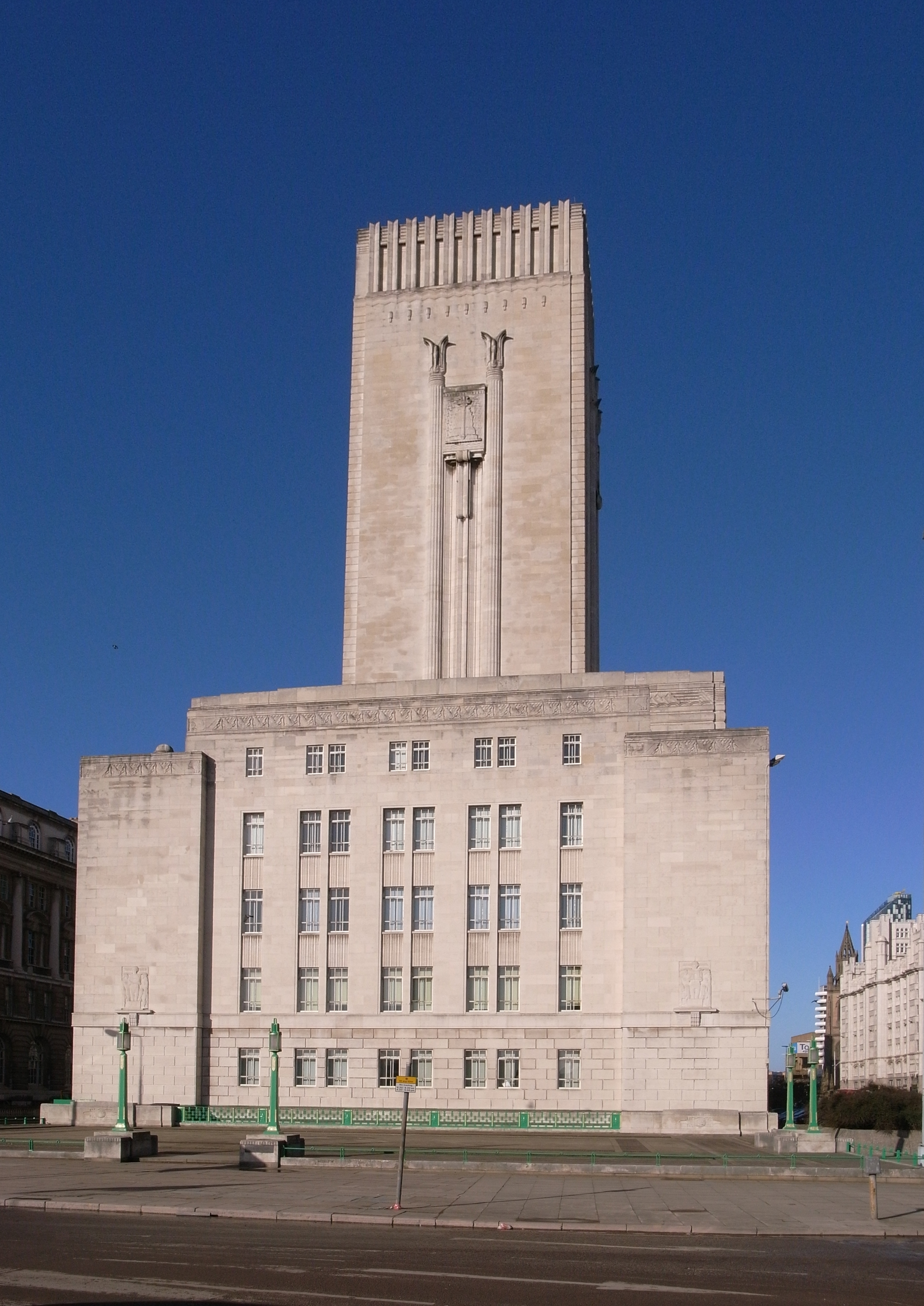 George's Dock Ventilation and Control Station, Pier Head, Liverpool, England. Offices and ventilation shaft for the Queensway Tunnel. Architect Herbert James Rowse, 1932.